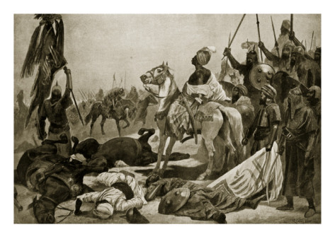 Hyder Ali at Conjeveram, 1780, Illustration from 'Hutchinson's Story of the British Nation', C.1923 by Richard Caton Woodville II